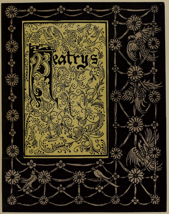 Page cover from Beatrys (La Légende de Béatrice), designed by Charles Doudelet, published by Buschmann in Anvers. From : L'Art flamand et hollandais. Revue mensuelle illustrée, vol. year 1904 (July-Dec.).